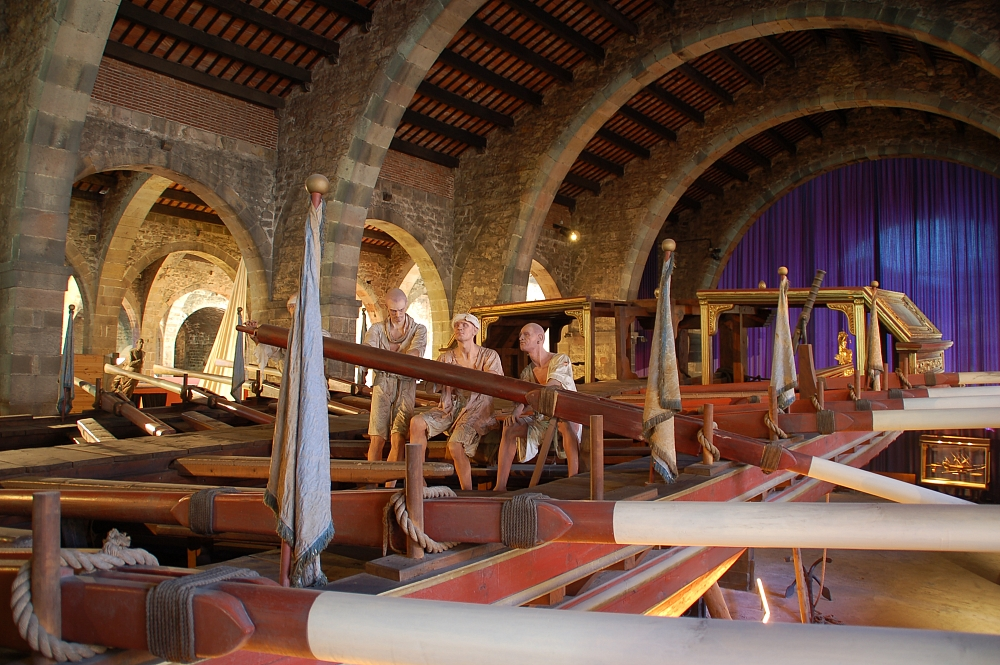 Museu Maritim, Barcelona, Spain